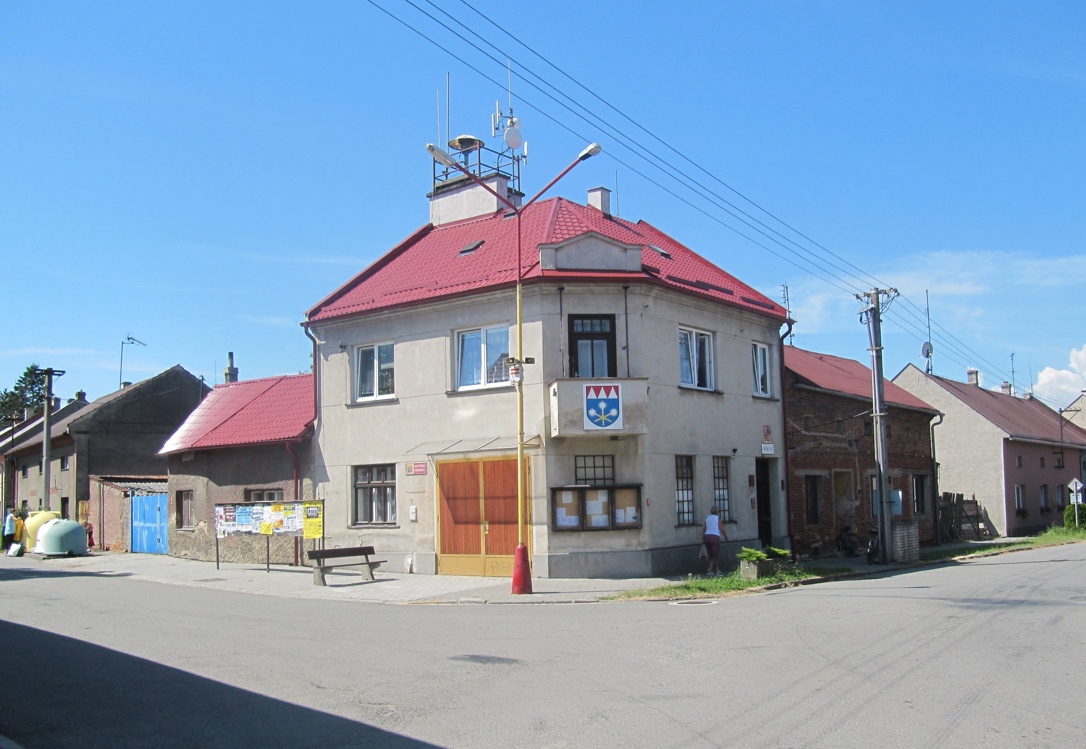 Říkovice, Přerov District, Czech Republic.